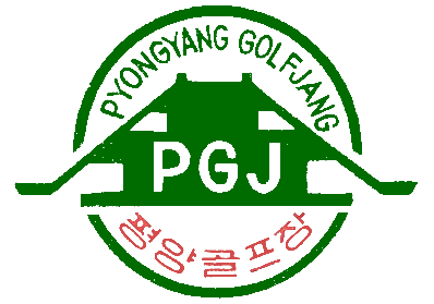 Pyongyang Golfjang Logo